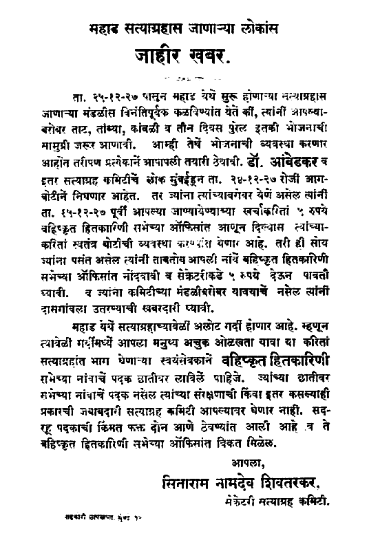 A flyer published by Bahishkrit Hitakarini Sabha in 1927 before the Mahad Satyagraha asking for contributions of Re. 5 to cover travel costs to Mahad and requesting all activists to wear badges of the Bahishkrit Hitakarini Sabha in Mahad.